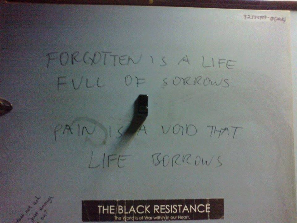 Graffiti of lyrics from the Humpback Oak song "Pain" from their album Pain-Stained Morning (1994) in a male toilet cubicle at The Substation, Singapore.